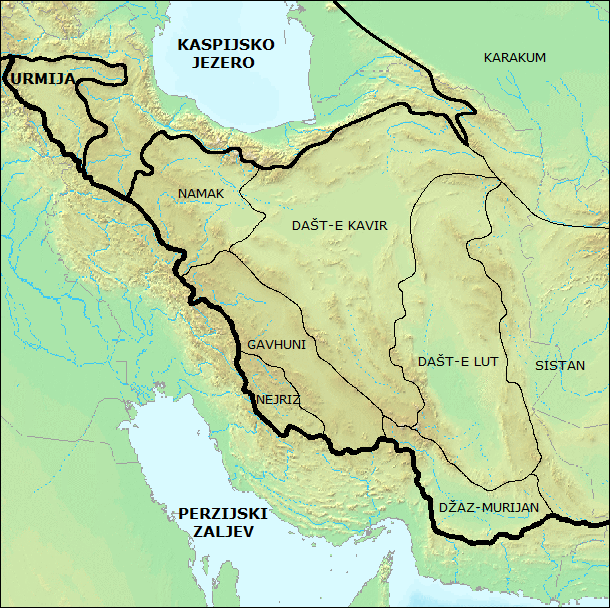 Drainage basins of IranSrpskohrvatski / српскохрватски: Slivovi Irana